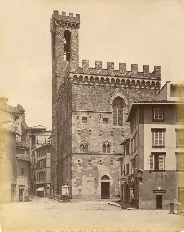 Giacomo Brogi (1822-1881), "Florence - The Palazzo del Podestà also called "del Bargello", a building dating back to 1260". Catalogue # 3042.